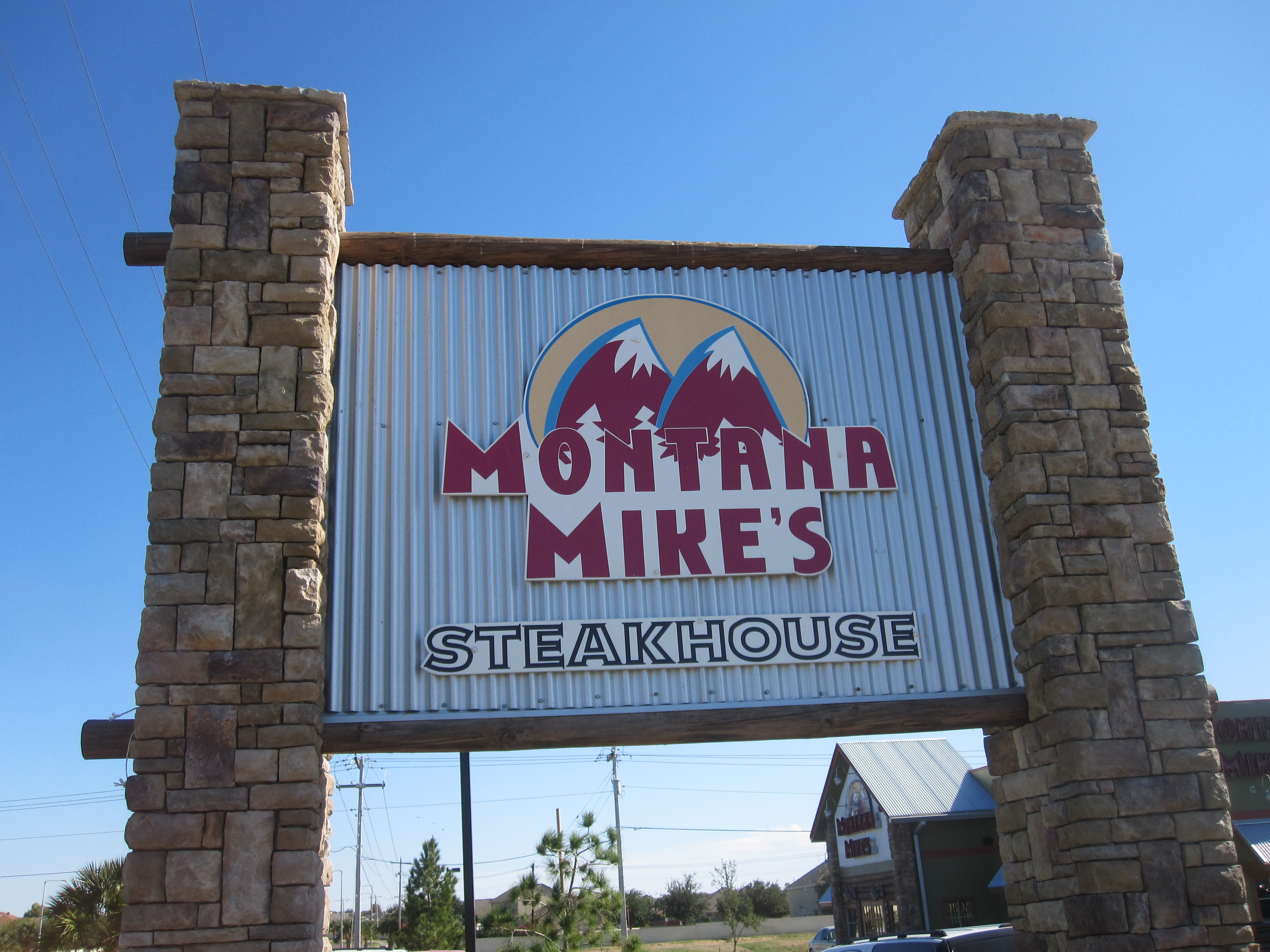 Montana Mike's Restaurant in Laredo, TX